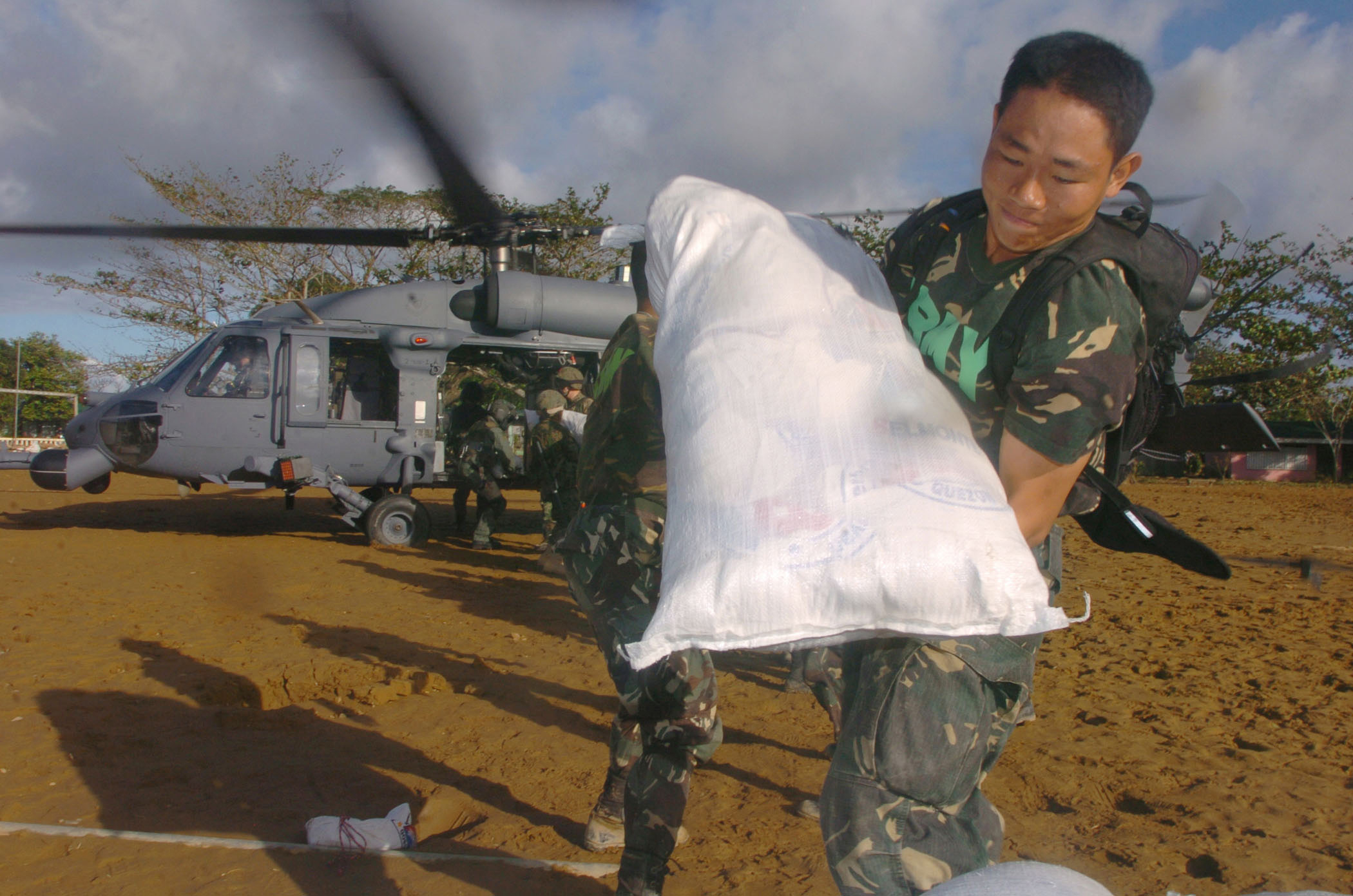 Philippine military personnel unload supplies from a U.S. Air Force HH-60 Pavehawk helicopter during typhoon relief operations in the town of Real in the Quezon Province of the Philippines on Dec. 16, 2004. About 600 U.S. military personnel are in the Philippines providing humanitarian assistance and disaster relief to residents of Quezon Province where widespread flooding and landslides have occurred. U.S. Air Force and Marine helicopters are delivering supplies to the stricken areas. The Pavehawk is assigned to 33rd Rescue Squadron, Kadena Air Base, Japan.